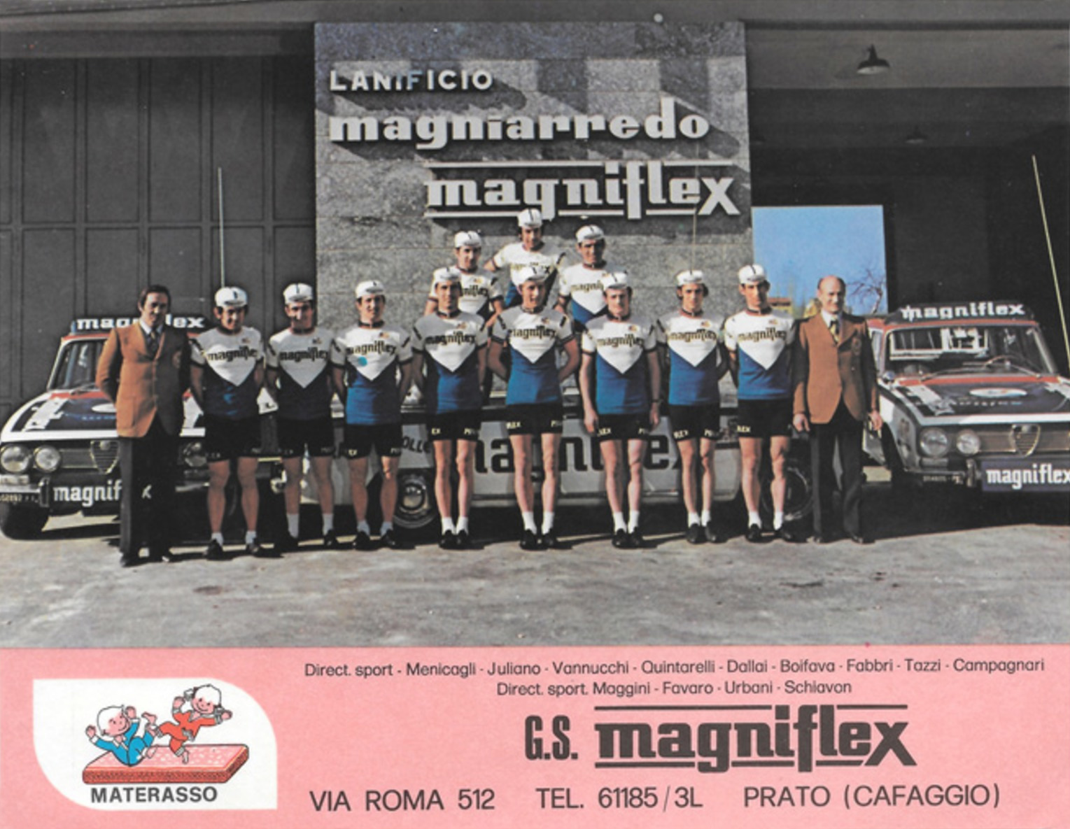 Magniflex cycling team 1973 postcard